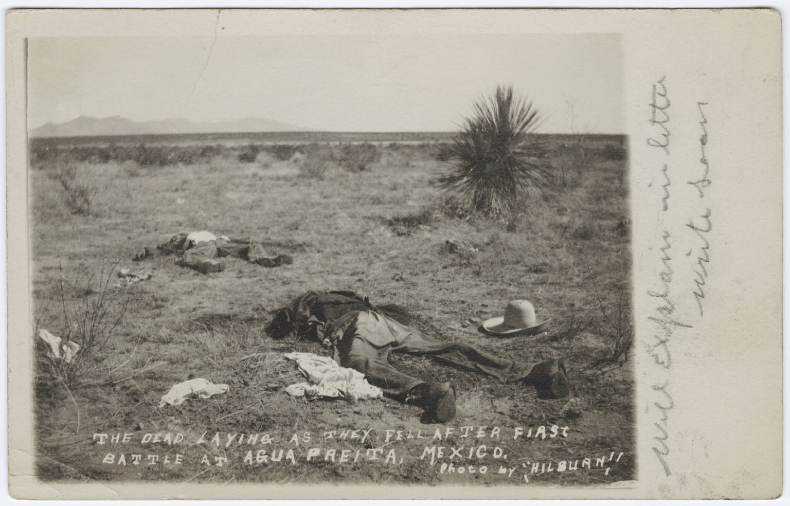 Postcard or print of a photo taken during the Mexican Revolution. "The dead laying as they fell after first battle at Agua Preita [Agua Prieta], Mexico."